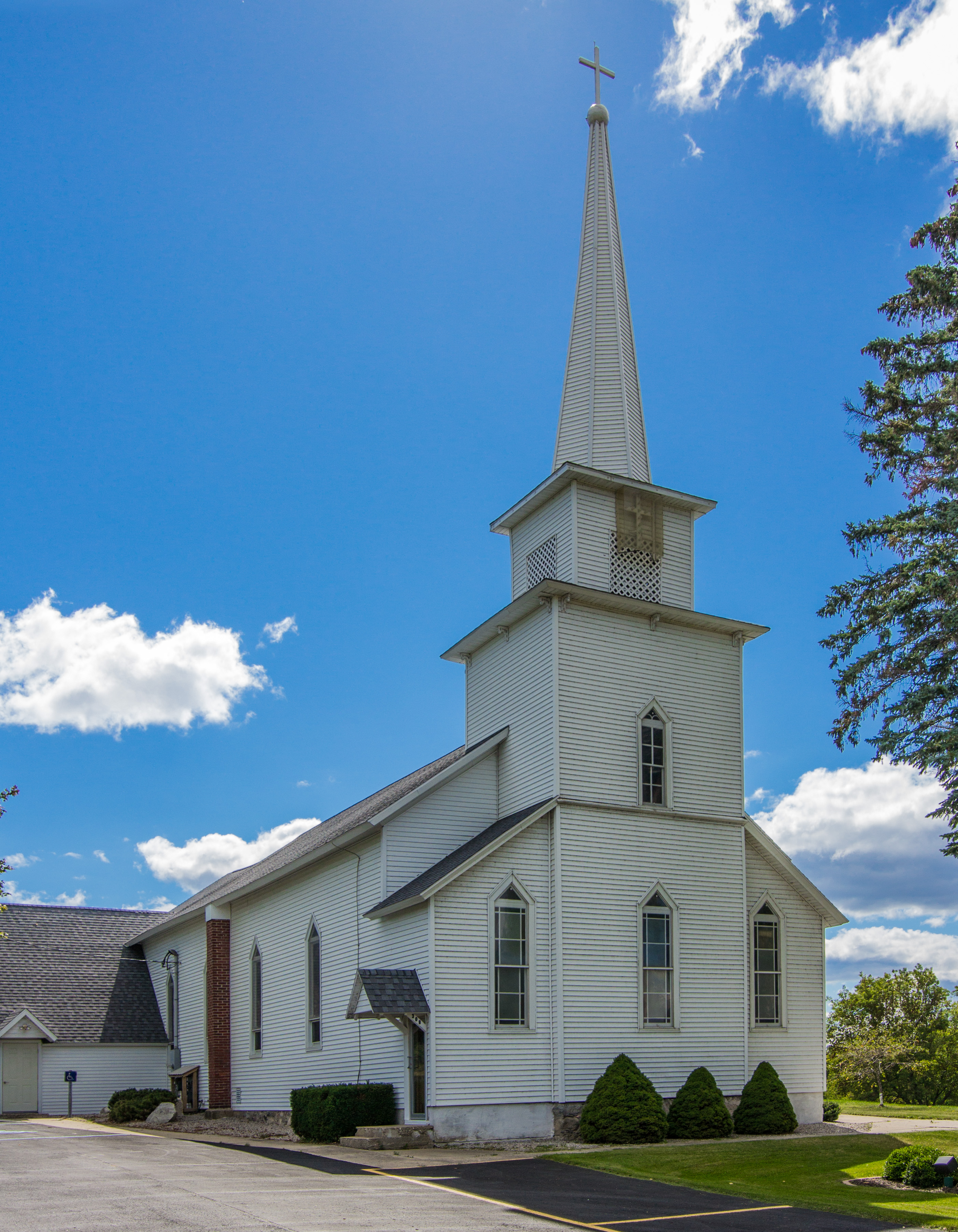 Swedish Evangical Lutheran Church